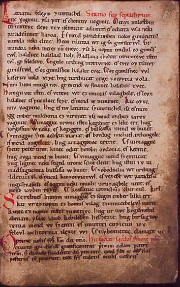 Pray Codex: Funeral Oration and Prayer